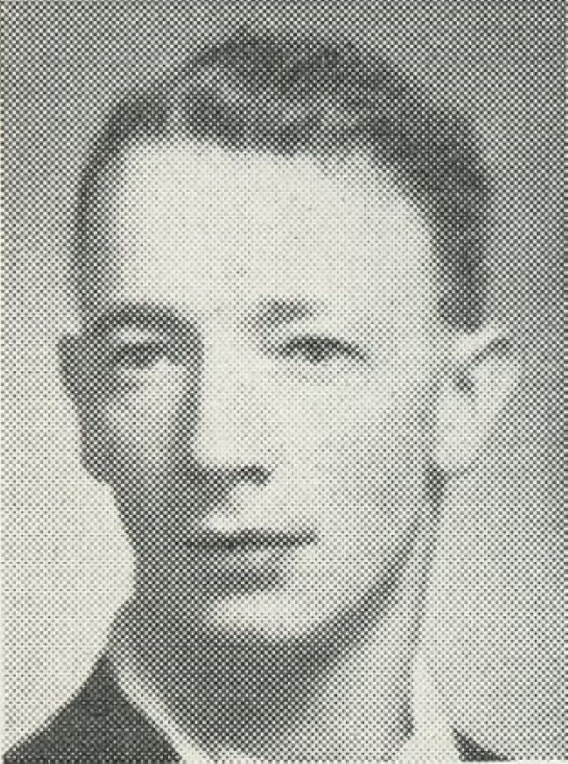 A photograph of Albert Kristoffer Johan Skålsvik.